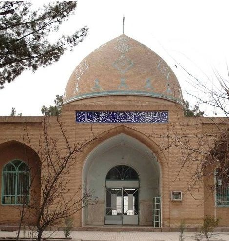 Tomb of Abu_Osman_Maghrebi in Dih Shaykh Near Nishapur